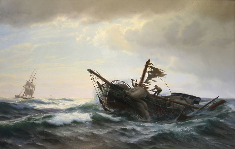 Danish: Jagthavari Yacht shipwreck